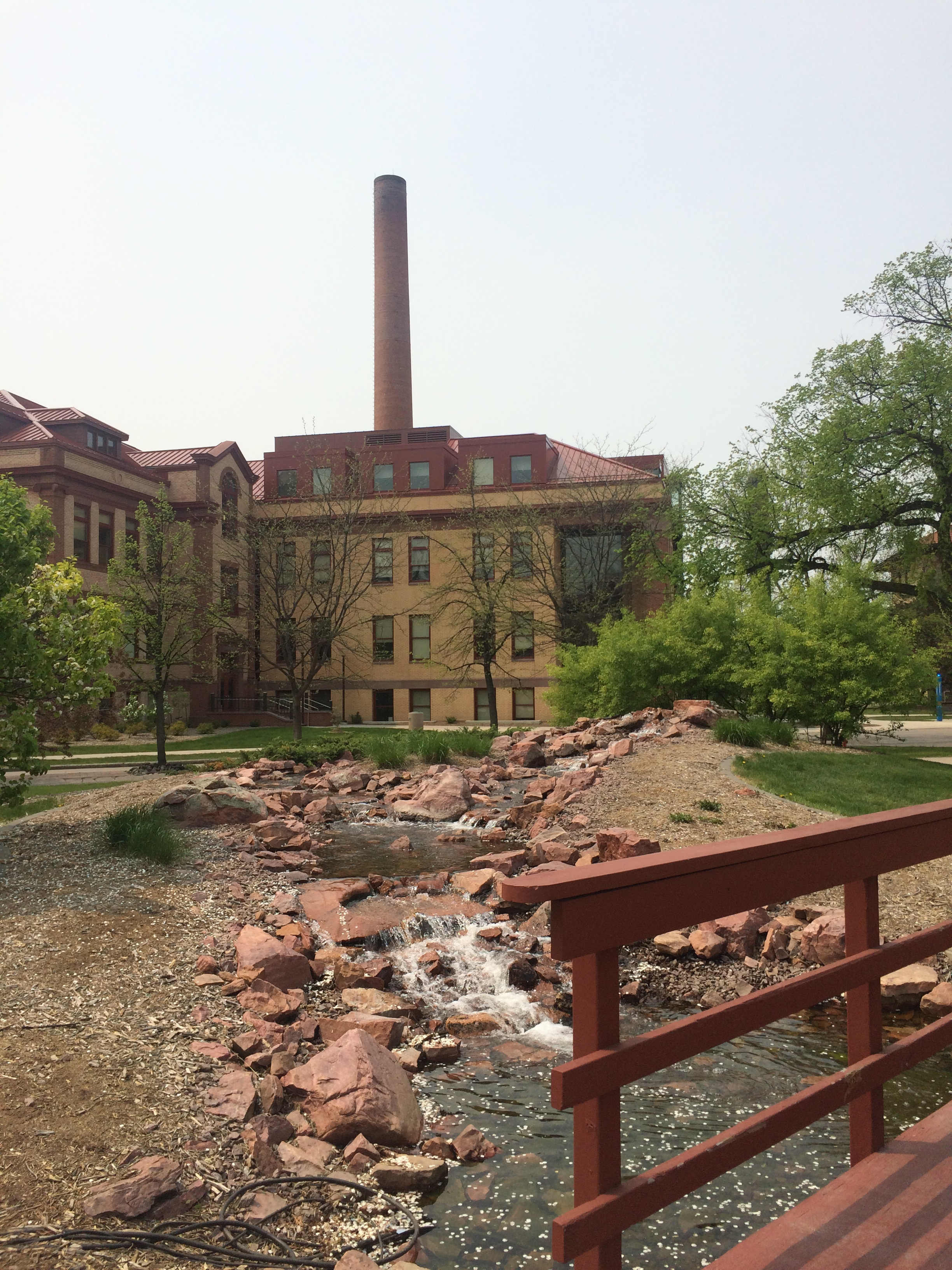 The Babbling Brook with Minard Hall and Heating Plant (45x84 feet in size) in the Background